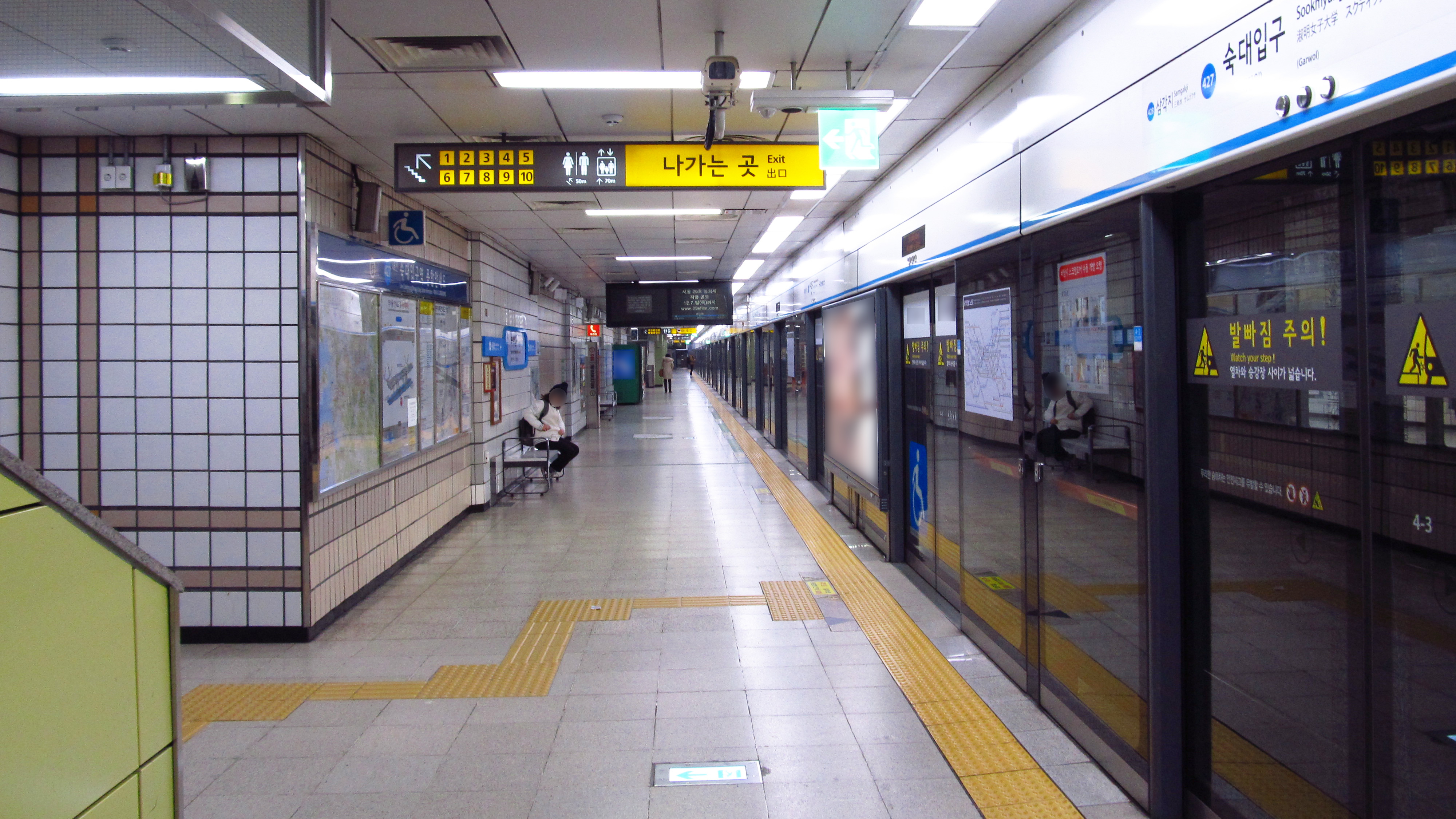 The platform at Sookmyung Women's University Station on Seoul Subway Line 4 in Yongsan-gu, Seoul, Republic of Korea(South Korea)